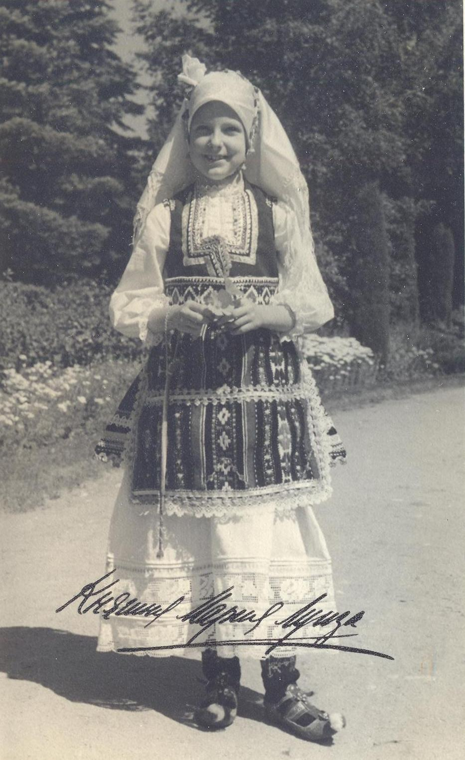 Princess Marie Louise of Bulgaria in Bulgarian national dress from Skopje district.